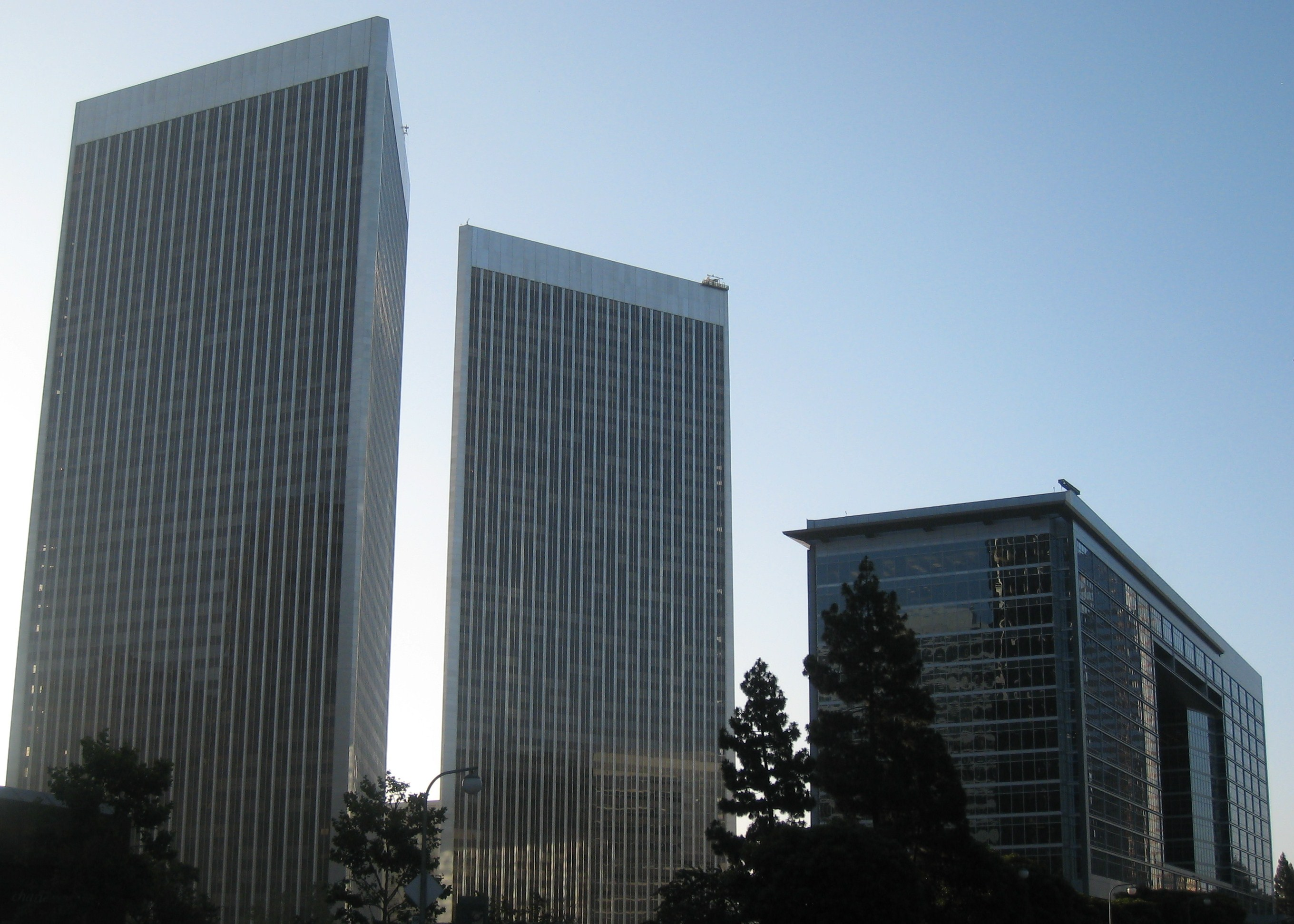 2000 Avenue of the Stars building (CAA building) in front of the Century Plaza Towers in Century City, California